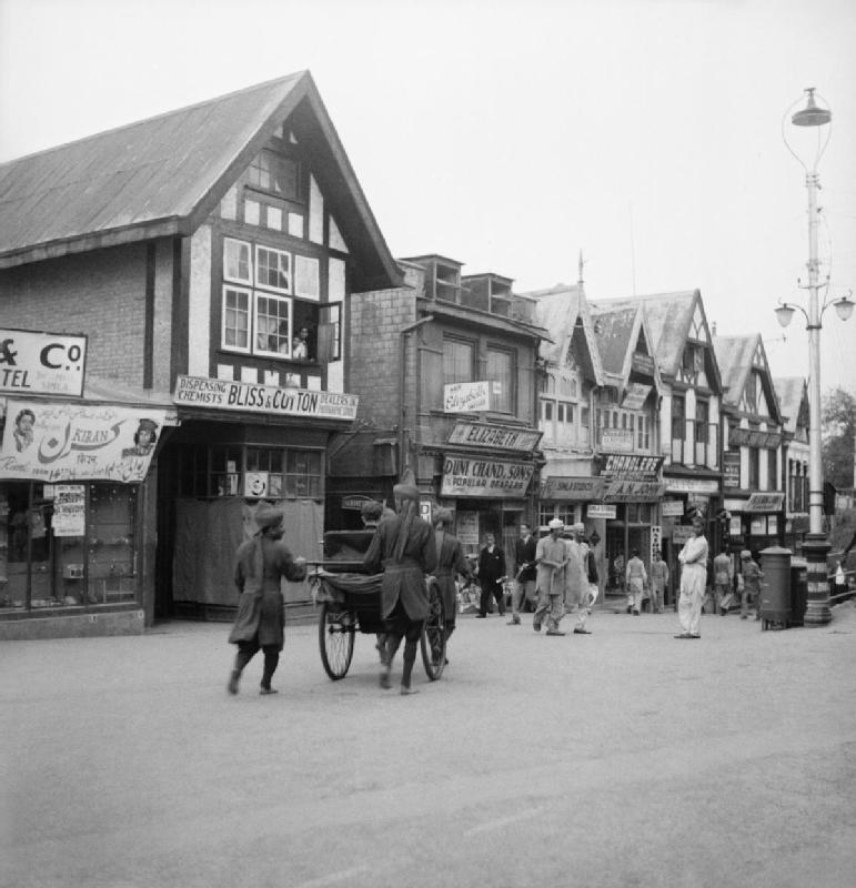 In Simla The shopping centre